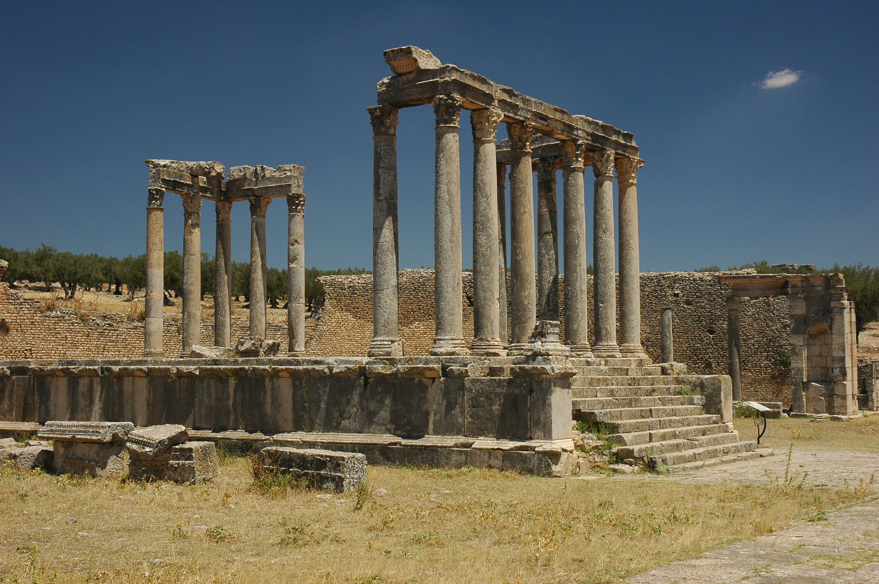 Junon's temple, Dougga in Tunisia